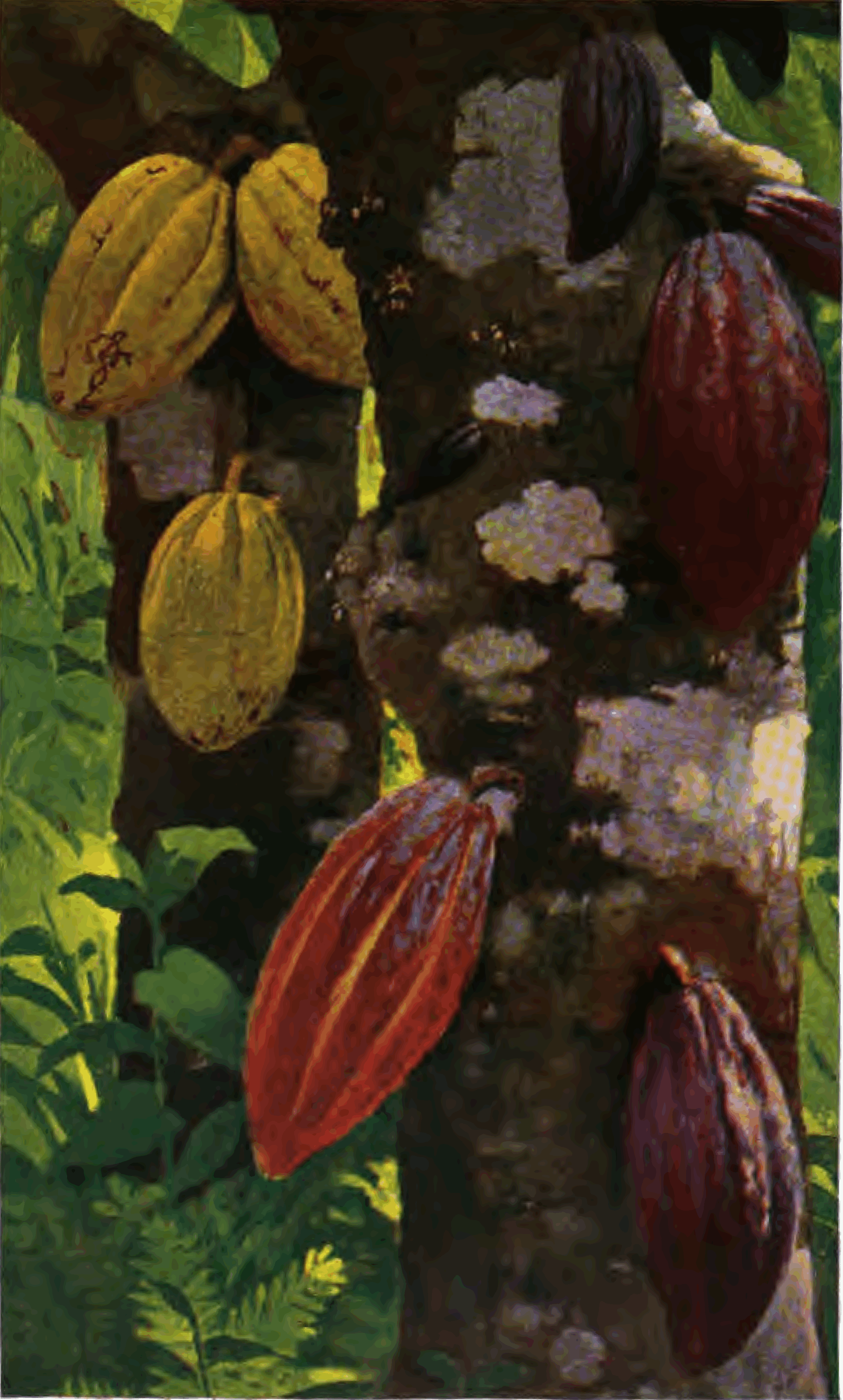 Cacao pods